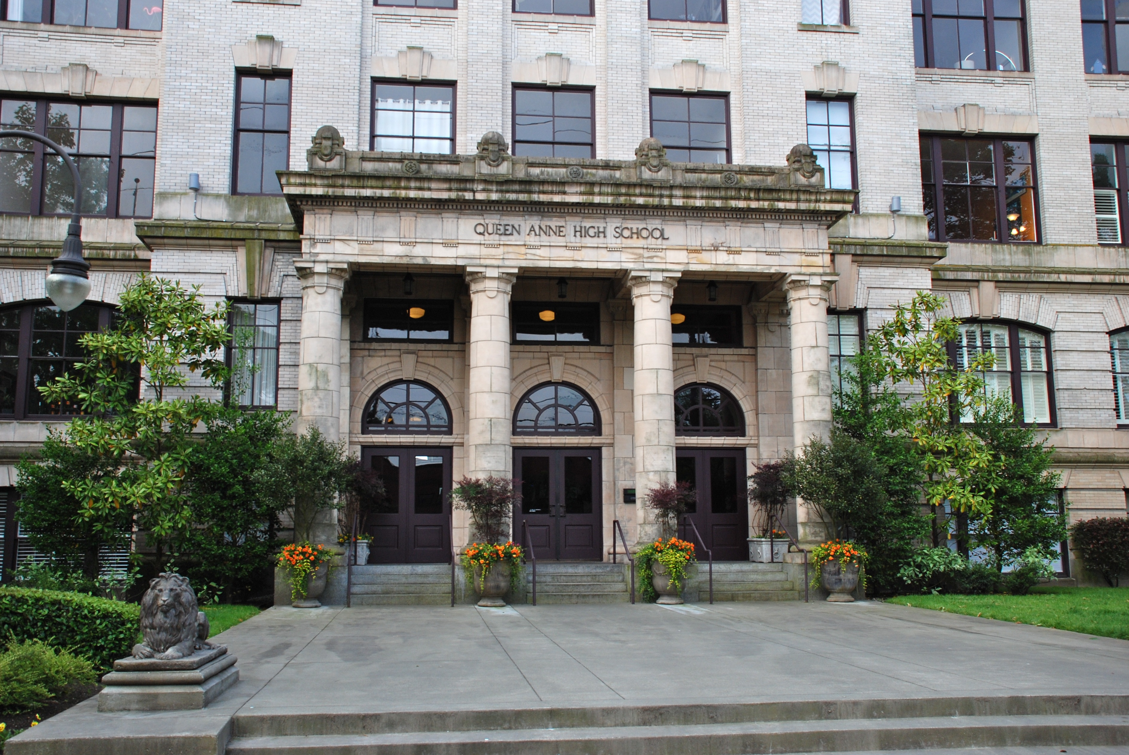 The former Queen Anne High School (built 1909 with additions in 1929 and 1955), 215 Galer Street, Queen Anne Hill, Seattle, Washington. The building, now condominium apartments, is listed on the National Register of Historic Places. More images